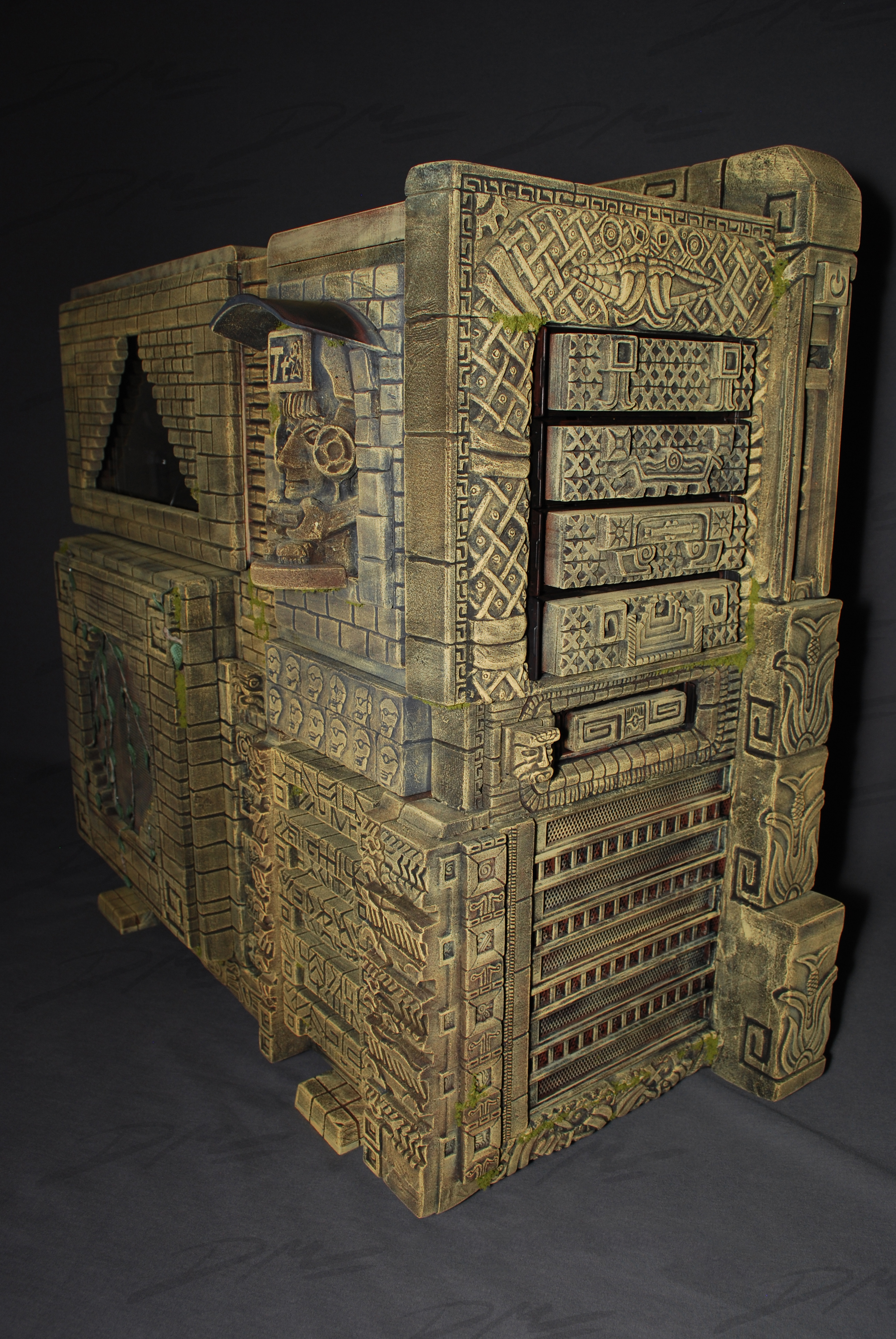 This was a contest winner, and subsequently featured in CES 2012 in Las Vegas, as well as CPU Magazine and Custom PC Magazine.